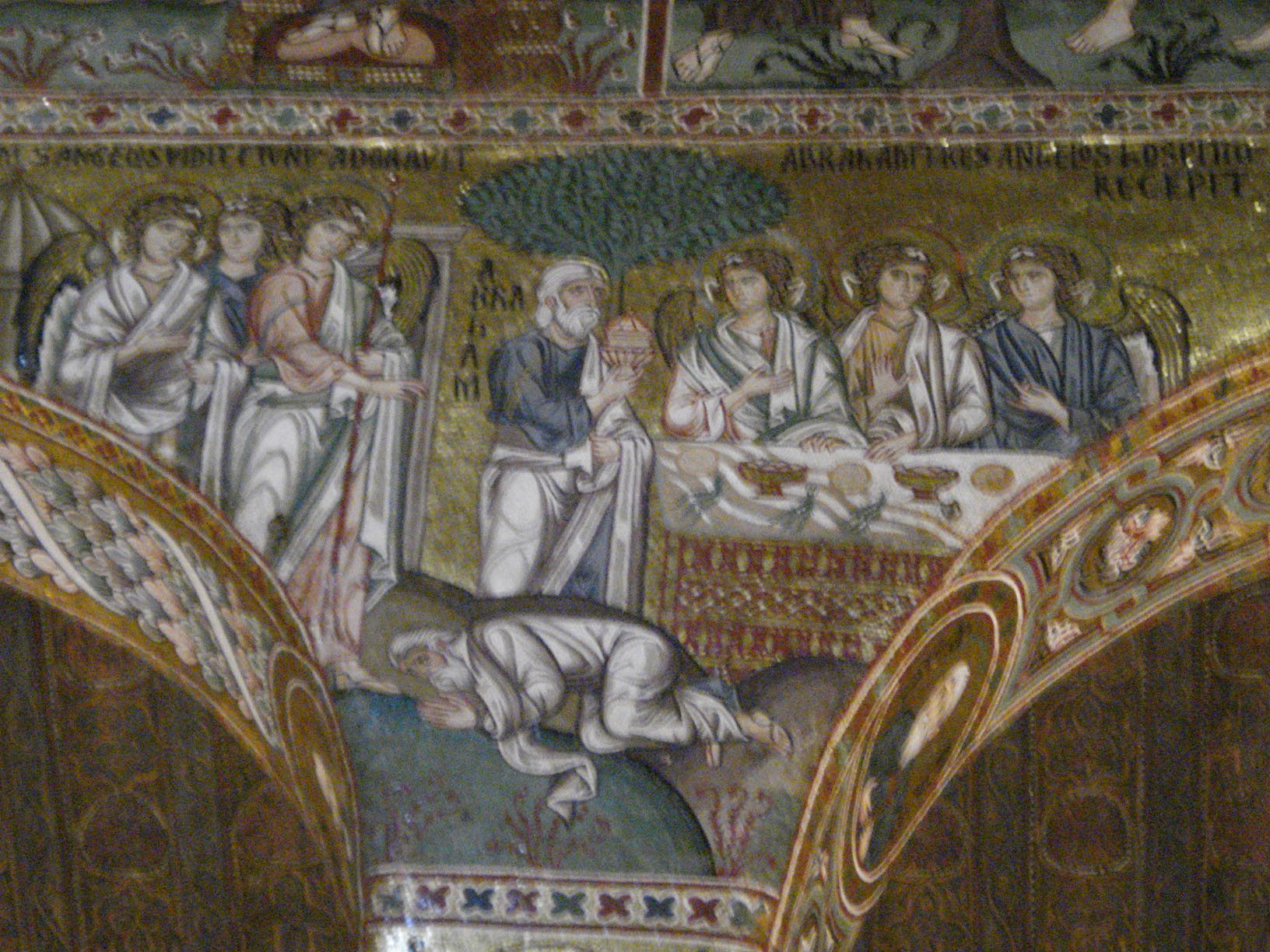 Abraham and Holy Trinity (Palatine Chapel)